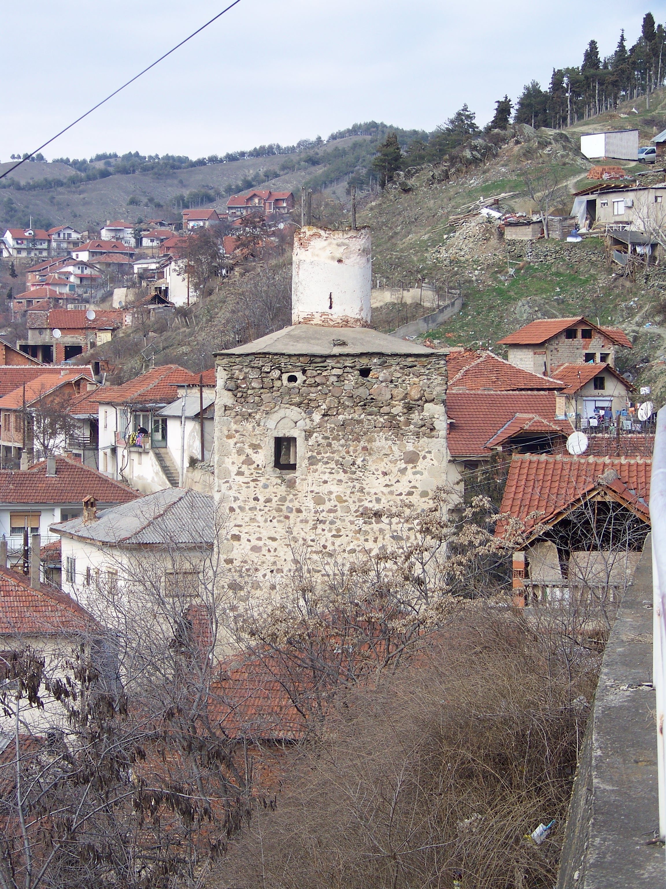 The medieval tower in Kocani, Macedonia